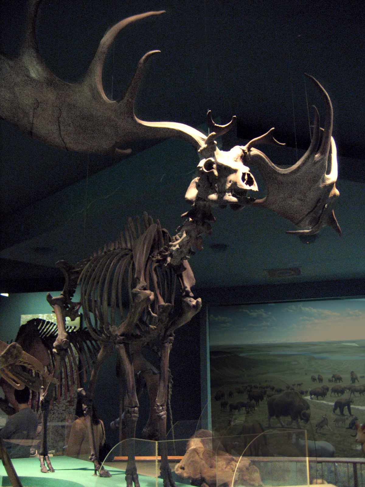 Megaloceros giganteus fossil at the National Museum of Natural History, Washington, D.C.